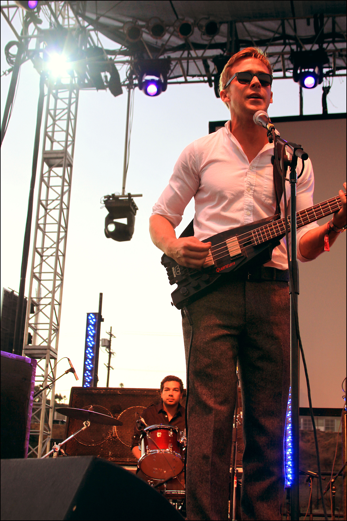 Dead Man's Bones FYF 2010